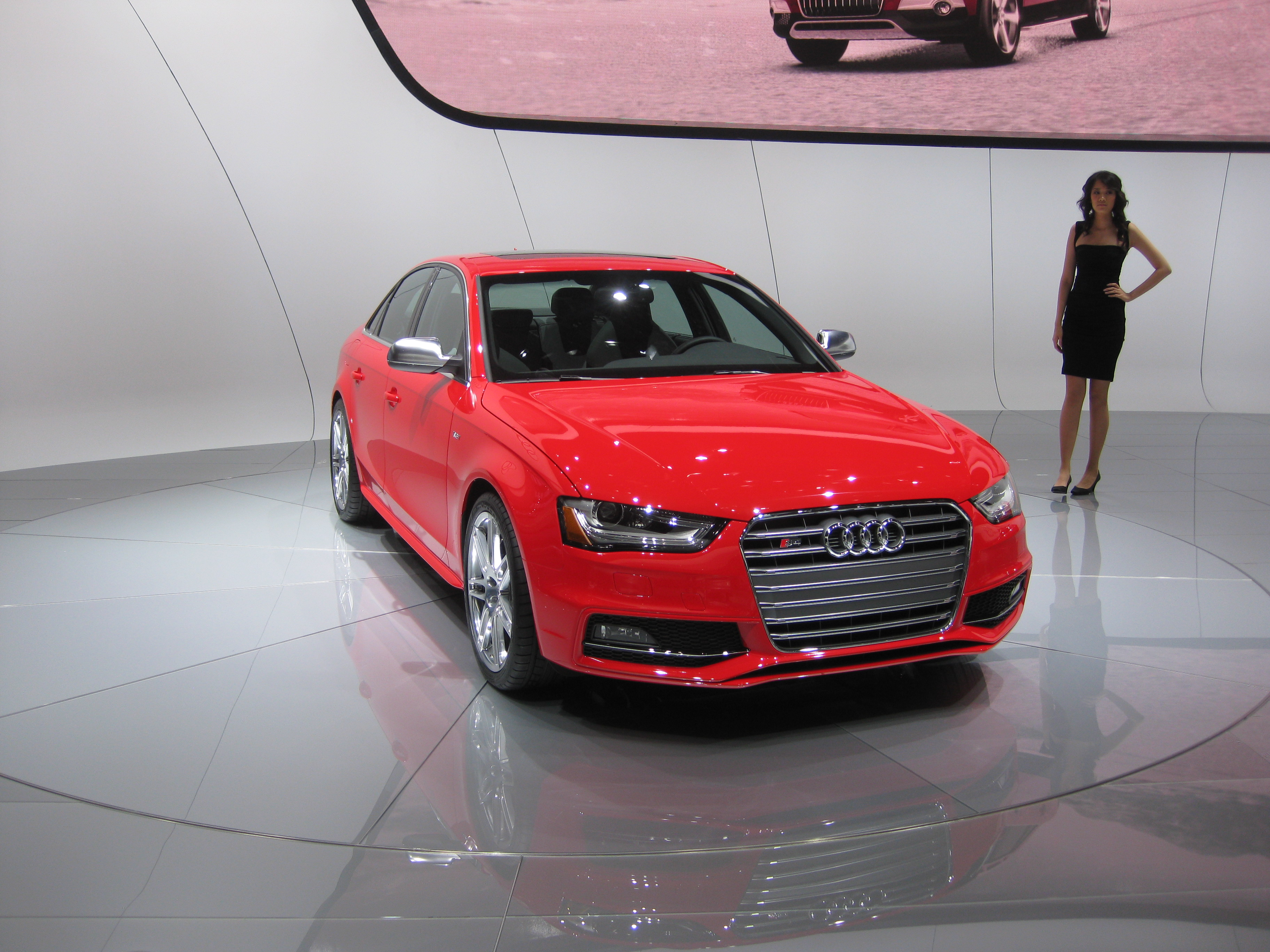 For more info and images please check